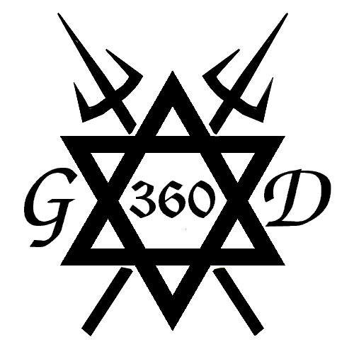 Gangster Disciples gang symbol